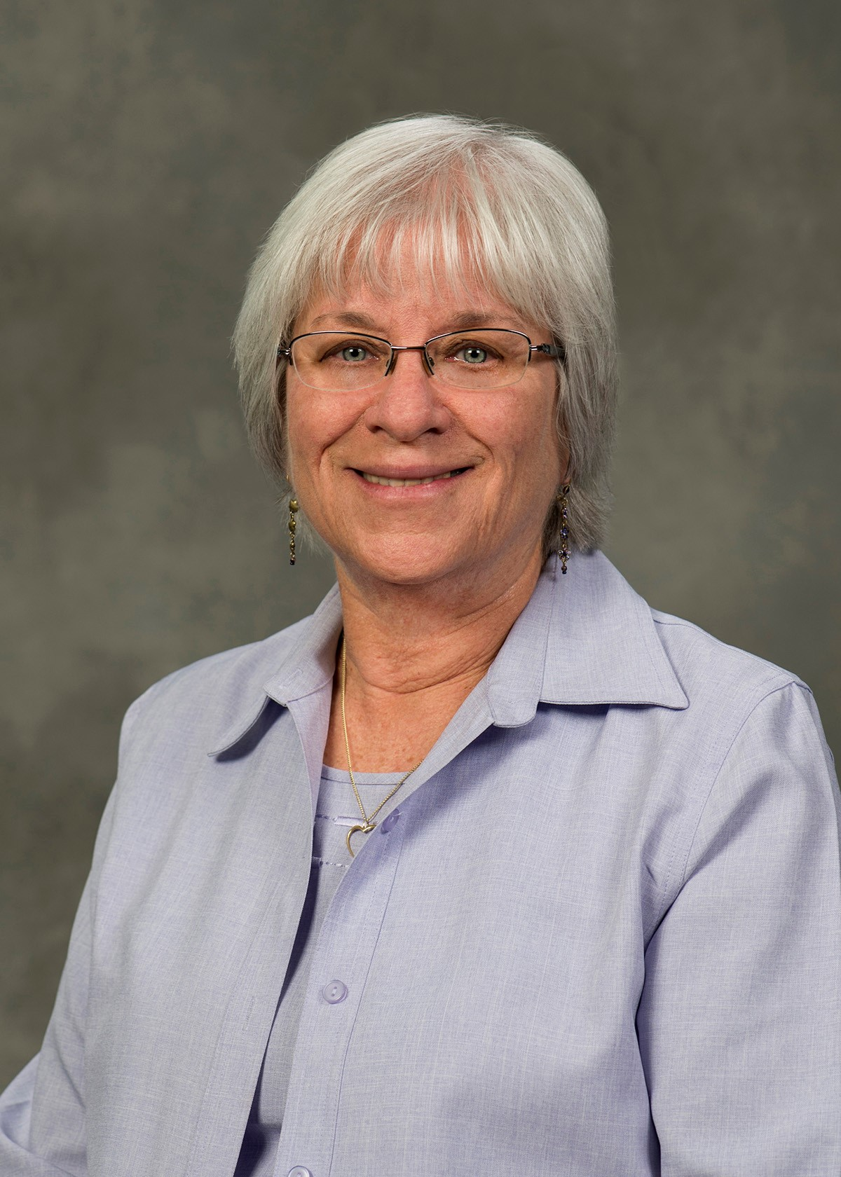 Professor Dafna Lemish, Dean of the College of Mass Communication and Media Arts at Southern Illinois University, Carbondale (SIU)